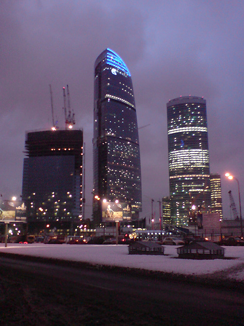 Moscow-City